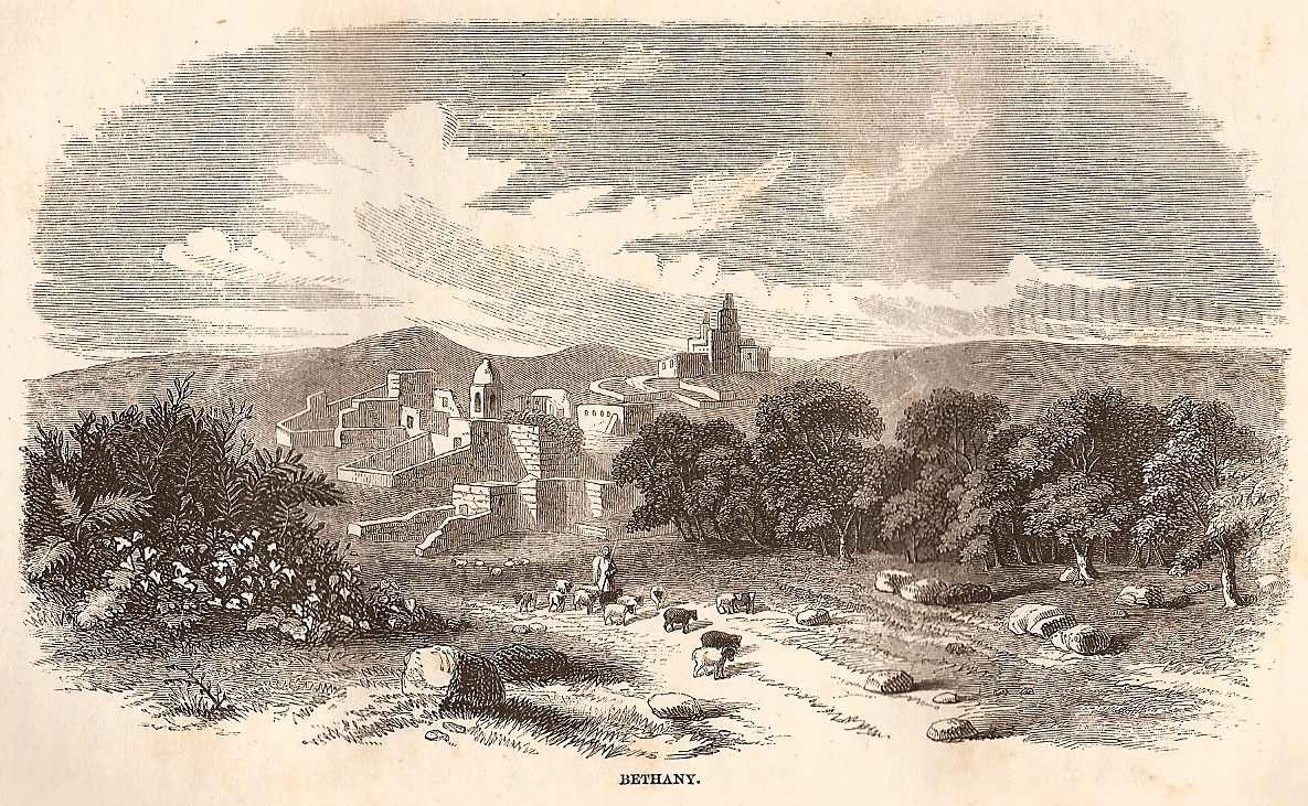 Bethany, Palestine, picture p. 598 in W. M. Thomson: The Land and the Book; or Biblical Illustrations Drawn from the Manners and Customs, the Scenes and Scenery of the Holy Land. Vol. II. New York, 1859.